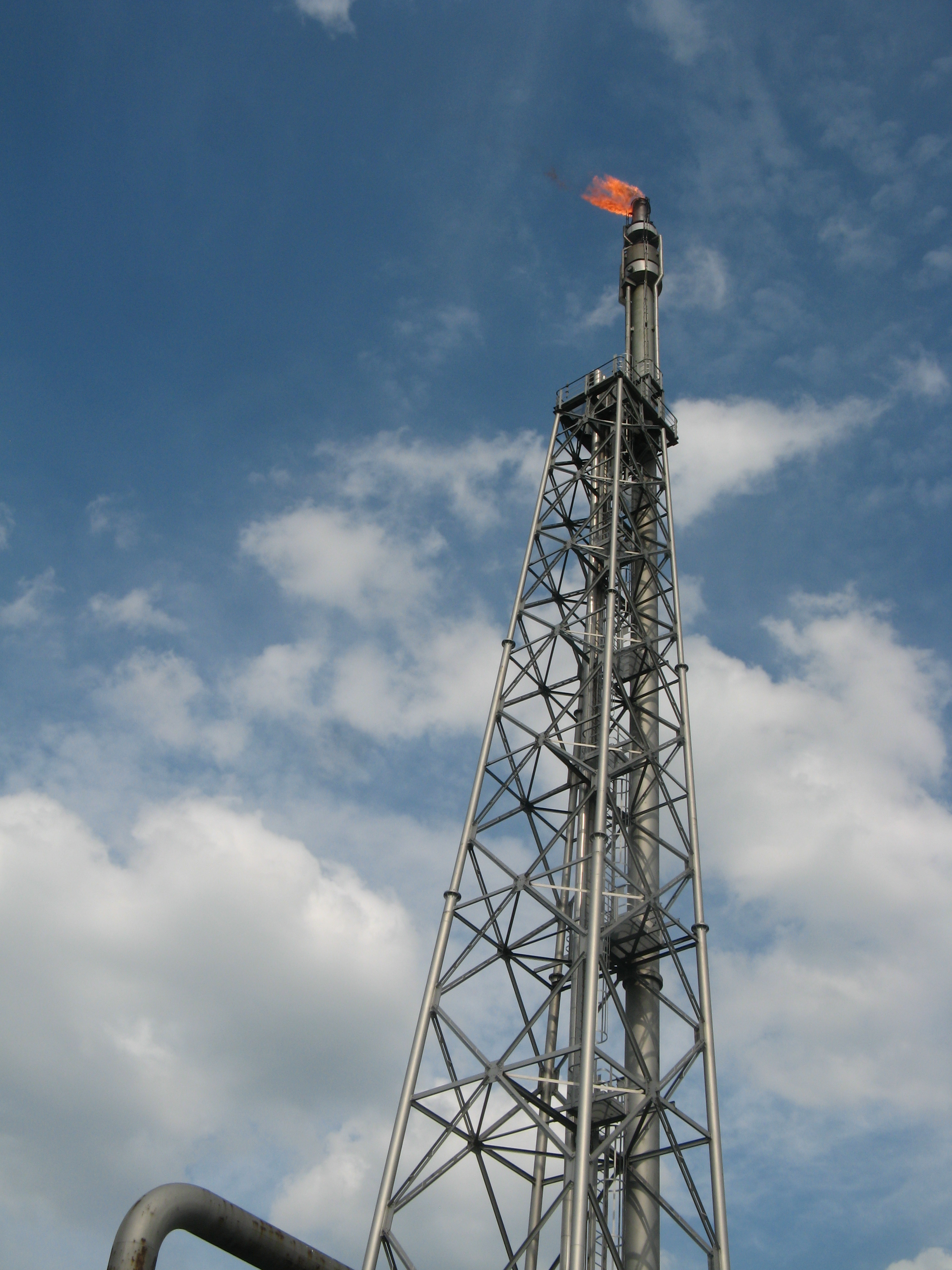 Shell Oil refinery in Hemmingstedt, Dithmarschen, Germany in summer